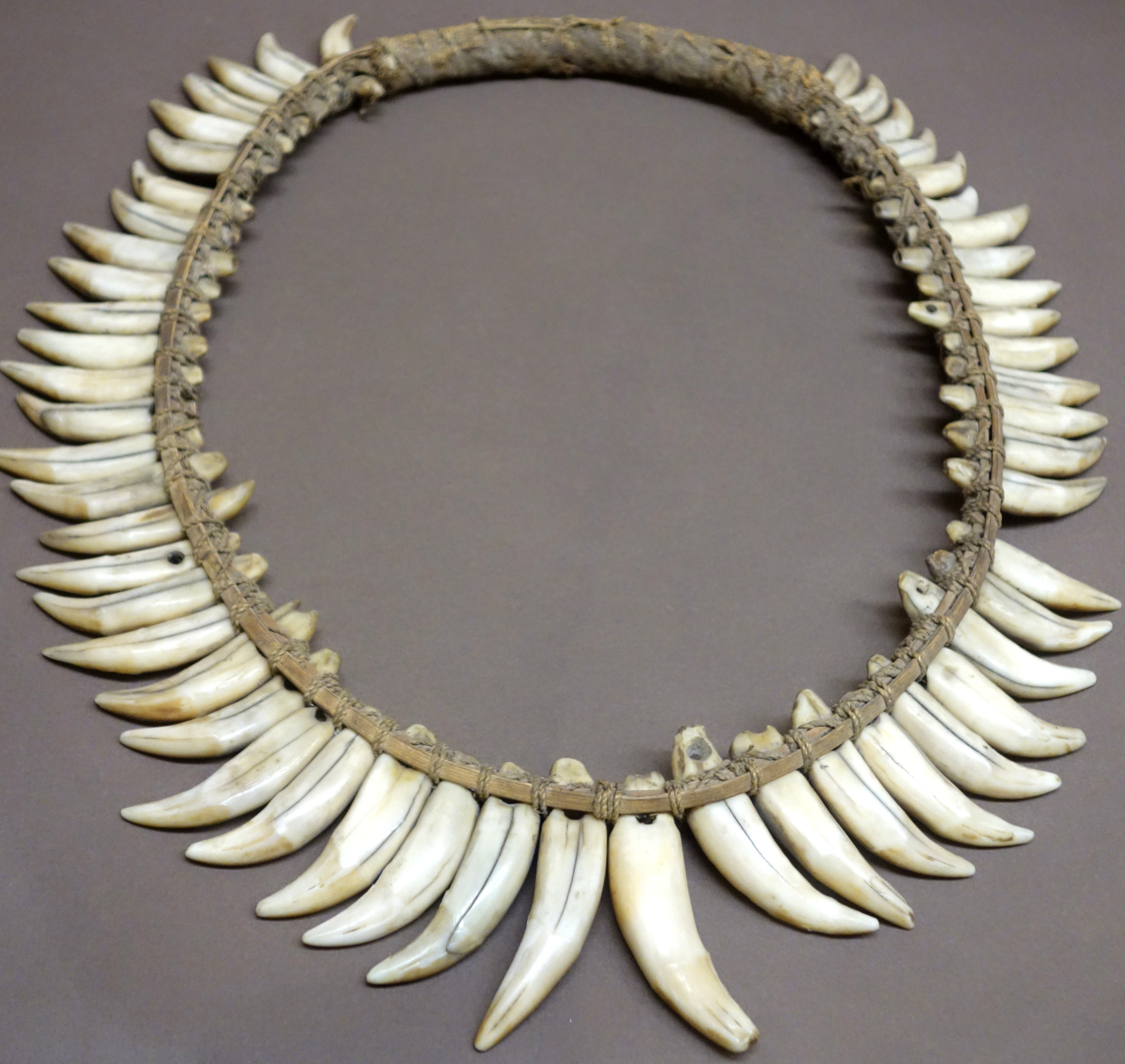 Exhibit in the Royal Museum for Central Africa, Tervuren, Belgium. This object is old enough so that it is in the public domain.